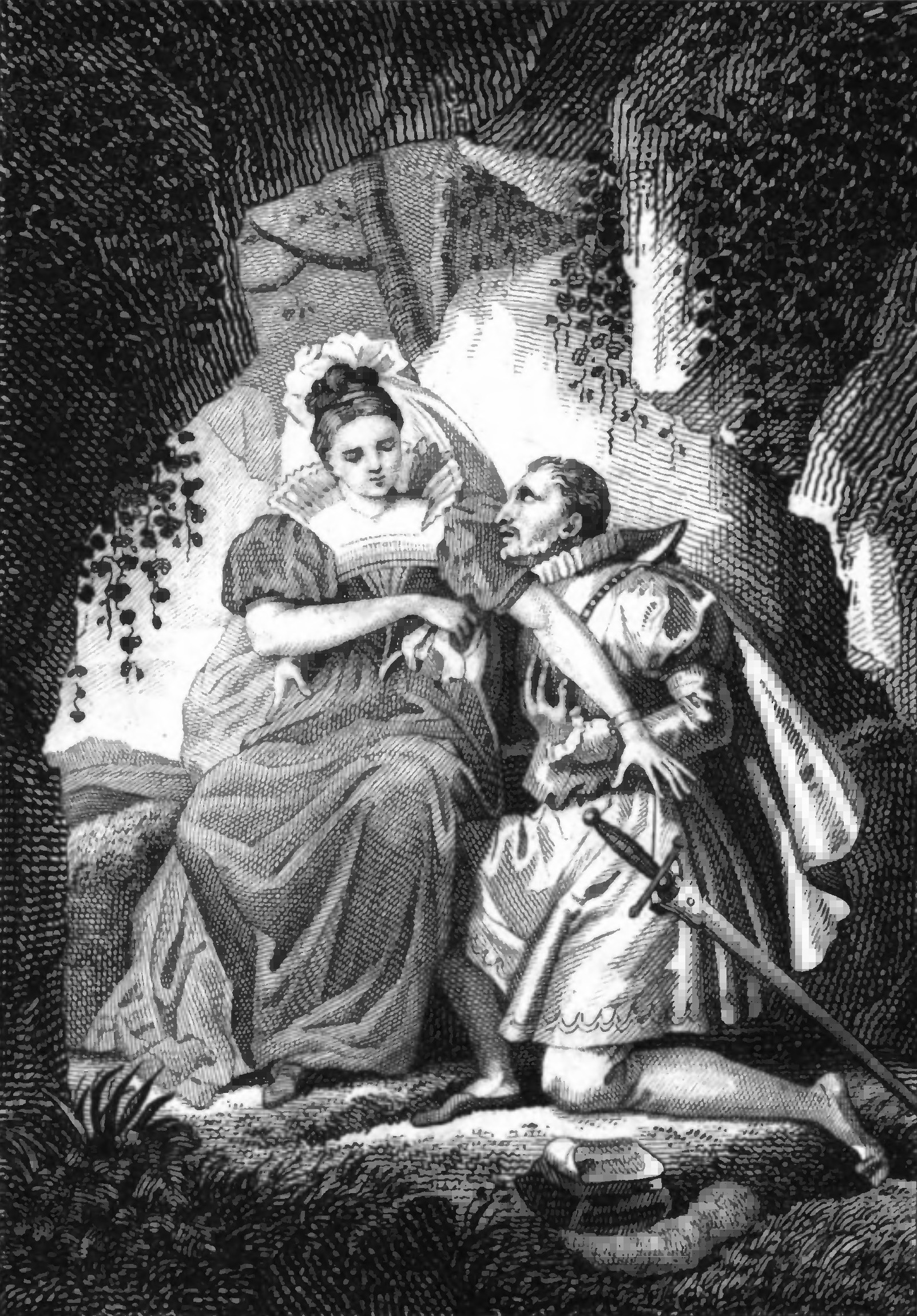 King Francis I of France begging his mistress Françoise de Foix, Countess of Châteaubriant, not to leave him, scene of the French novel François Ier and Madame de Chateaubriand (1816), by Augustine Gottis.